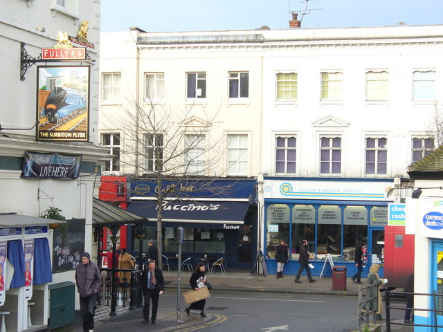 Central Surbiton Outside Surbiton Station is the busy Victoria Road with its ground level shops. On the left is the Surbiton Flyer pub. Surbiton is on the London - Southampton line but these trains tend not to stop at Surbiton - change at Woking, Clapham Junction or Waterloo.